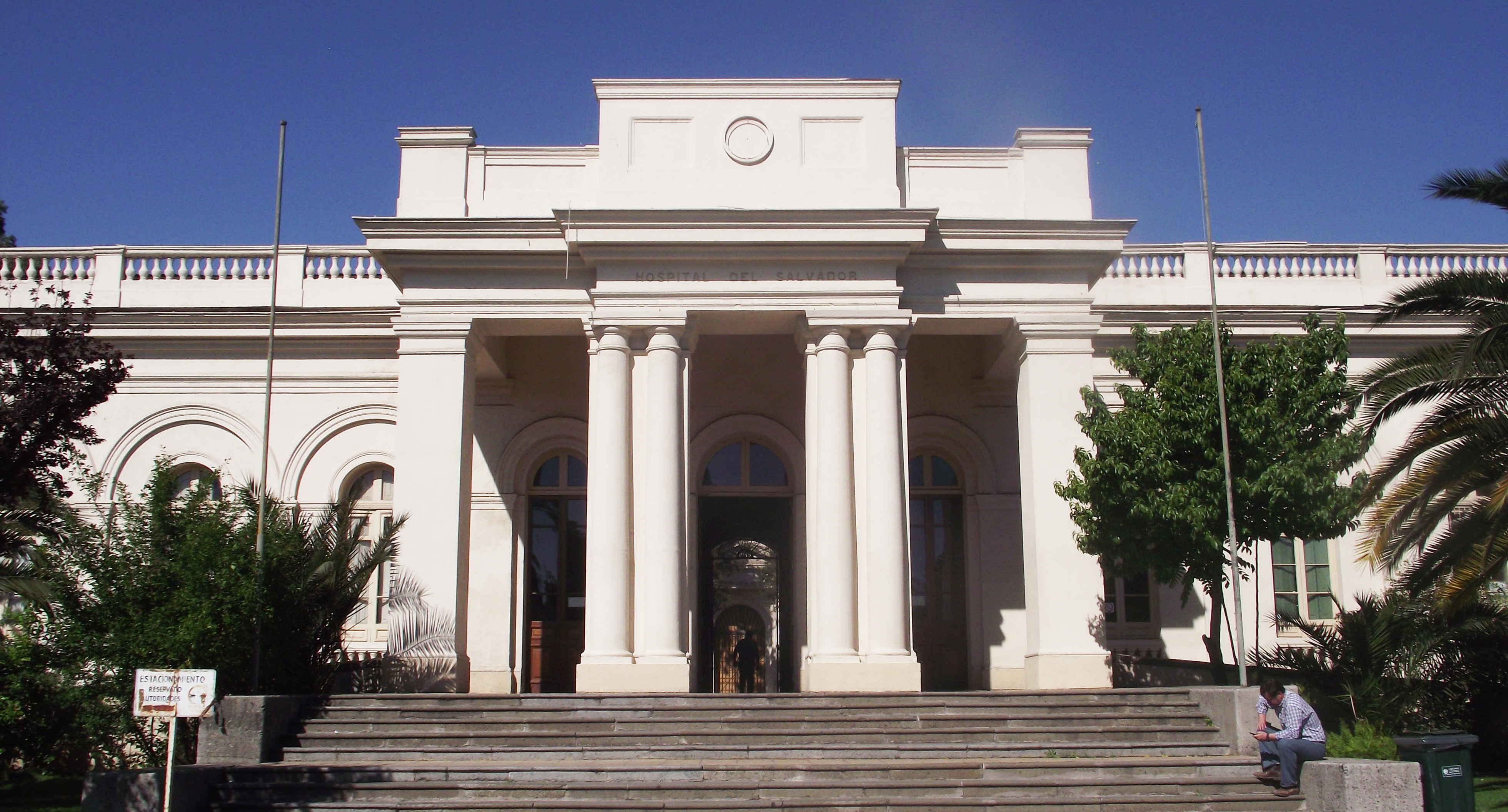 This is a photo of a national monument in Chile: 865